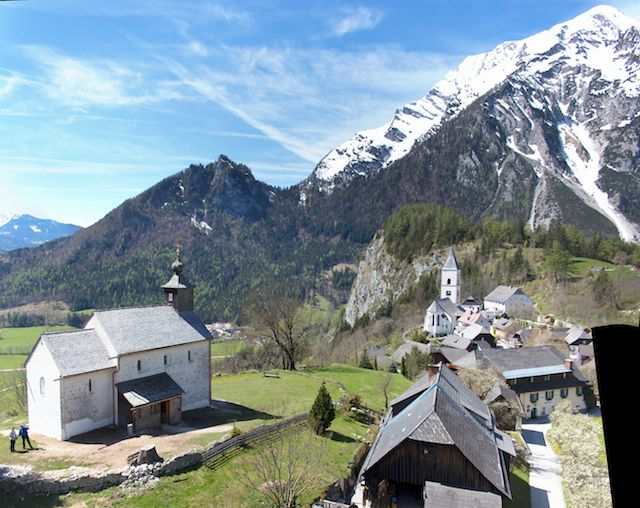 St. Johannes-Kapelle with Pürgg and Grimming in the background